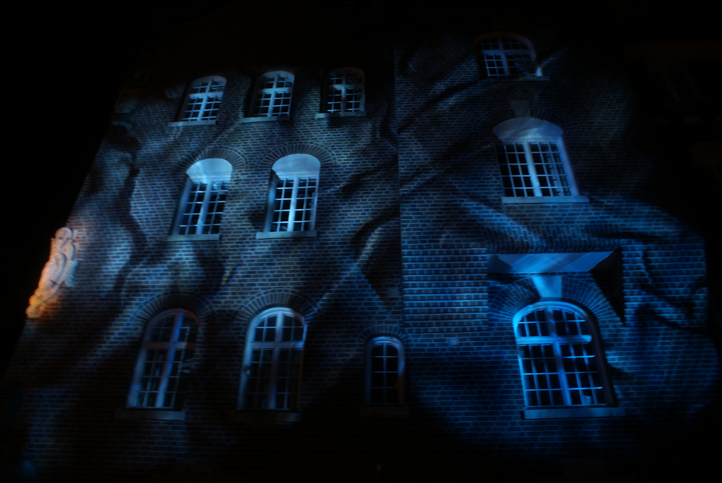 A wall lit during the winter festival in Östersund